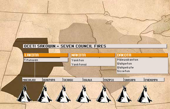 Map of Sioux tribal areas and bands; the Yankon-Yanktonai grouping is still misnamed as Nakota.